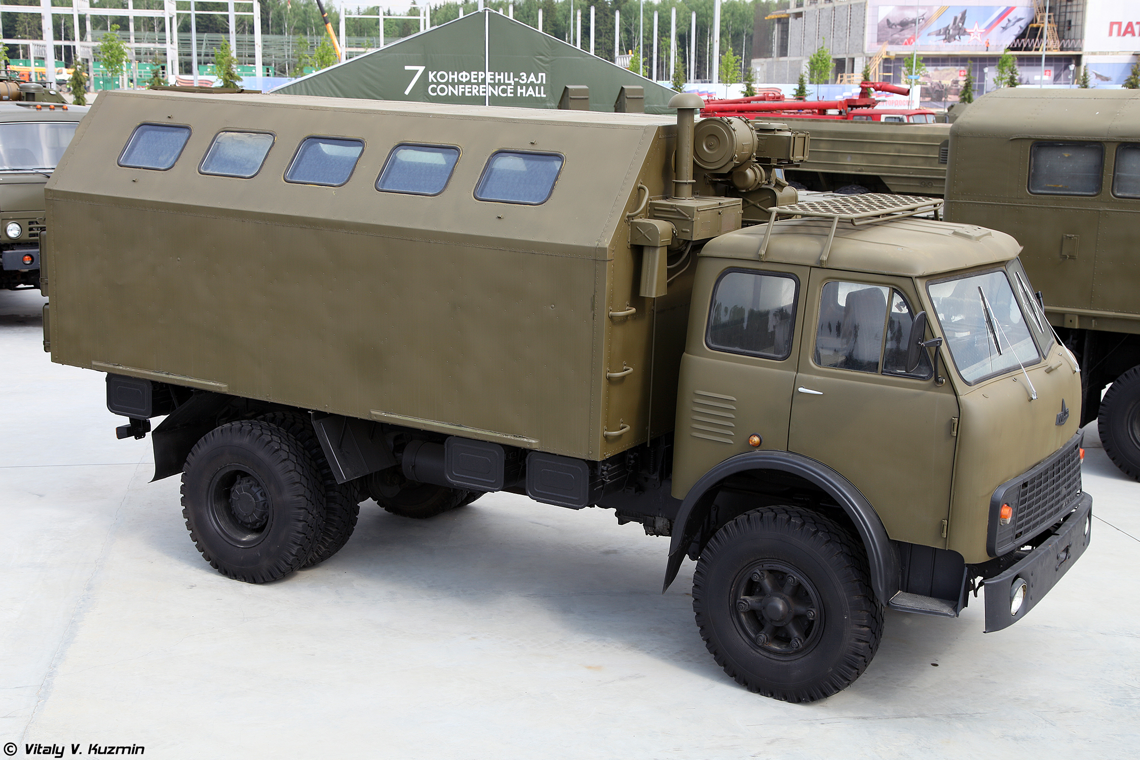 МАЗ-5334 с кузовом КМ-500 (MAZ-5334 with KM-500 compartment)